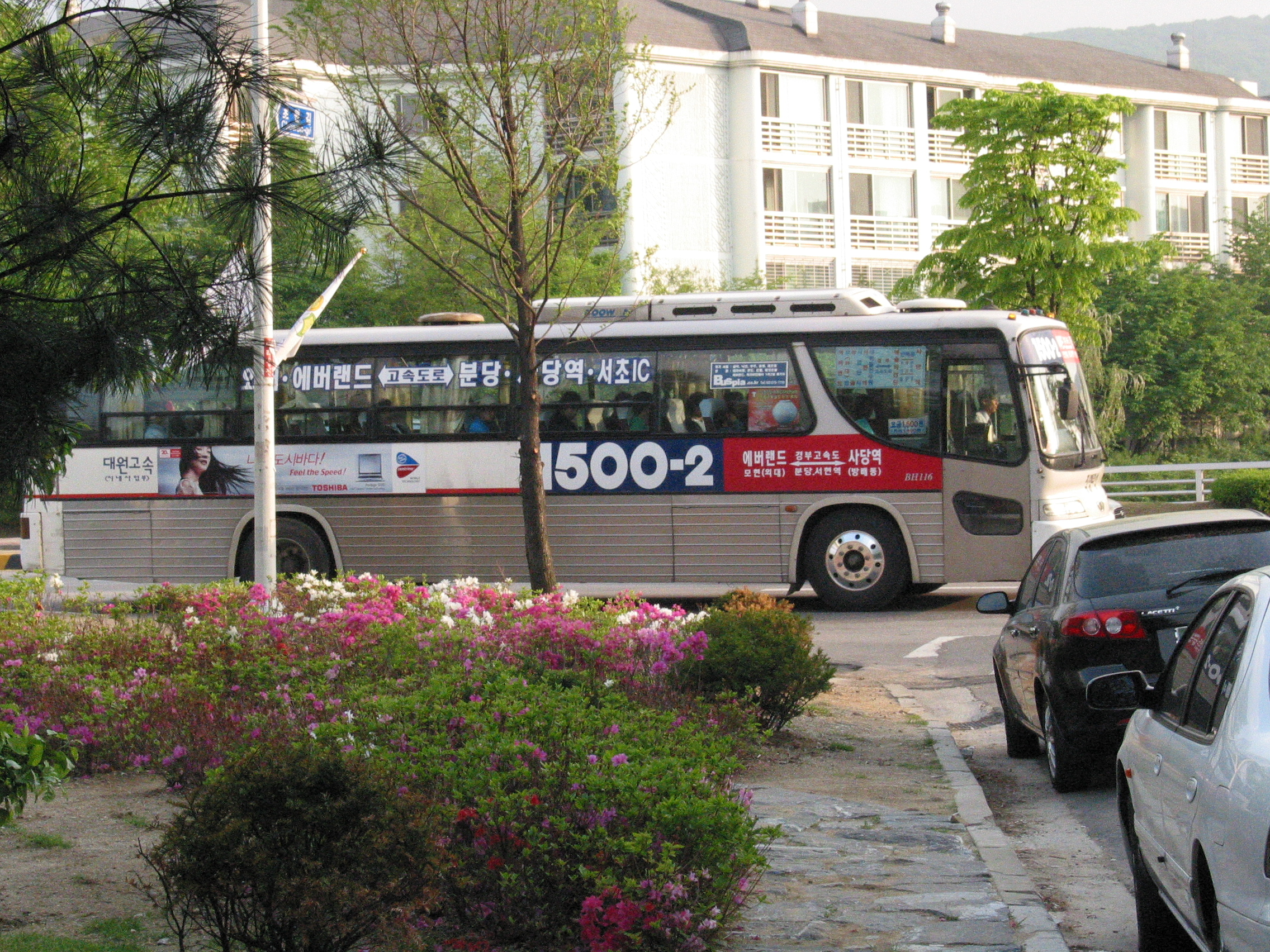 Gyeonggi Gwangju Bus No.1500-2 near Yuldong Park.